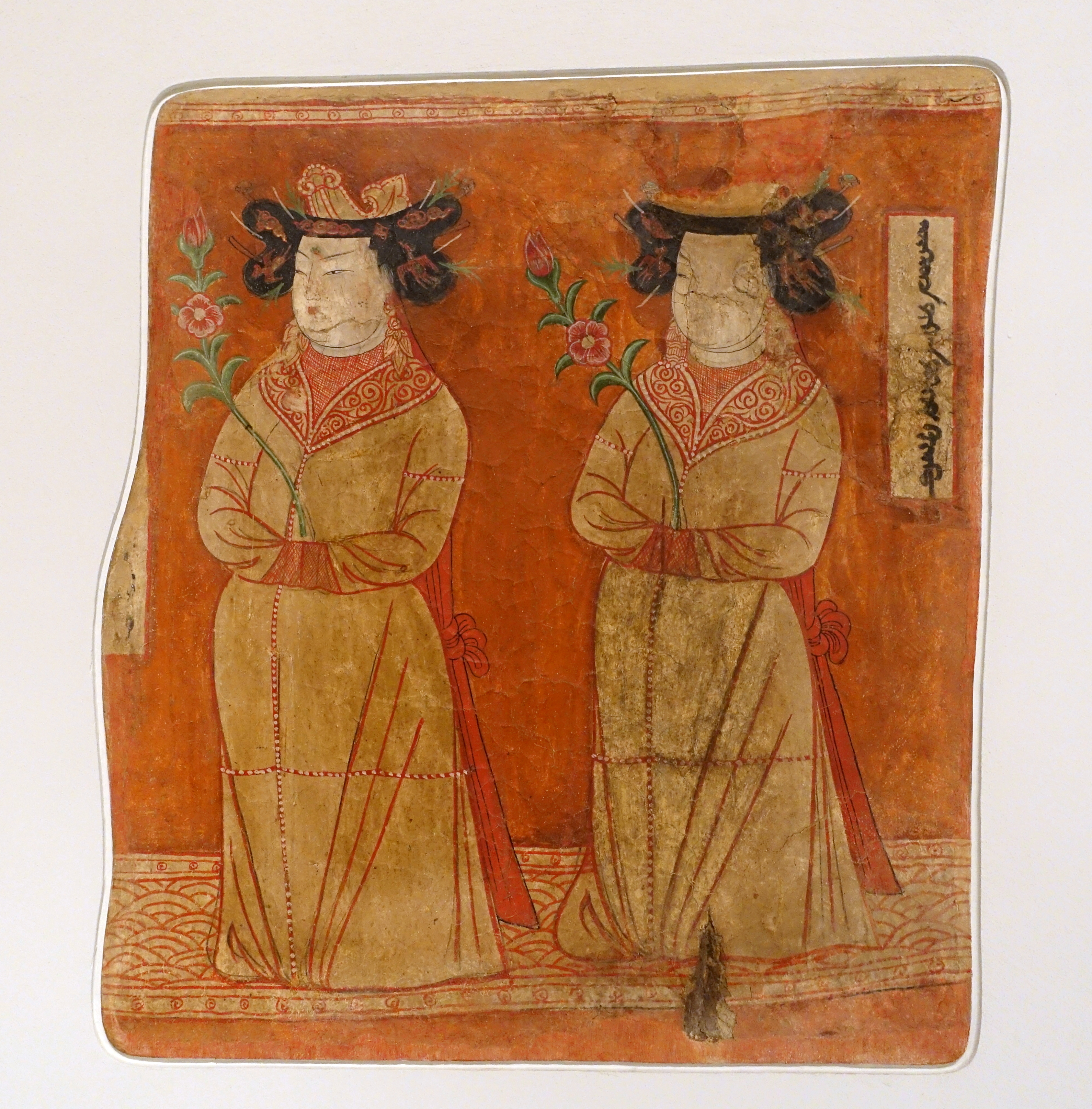 Exhibit in the Ethnological Museum, Berlin, Germany.